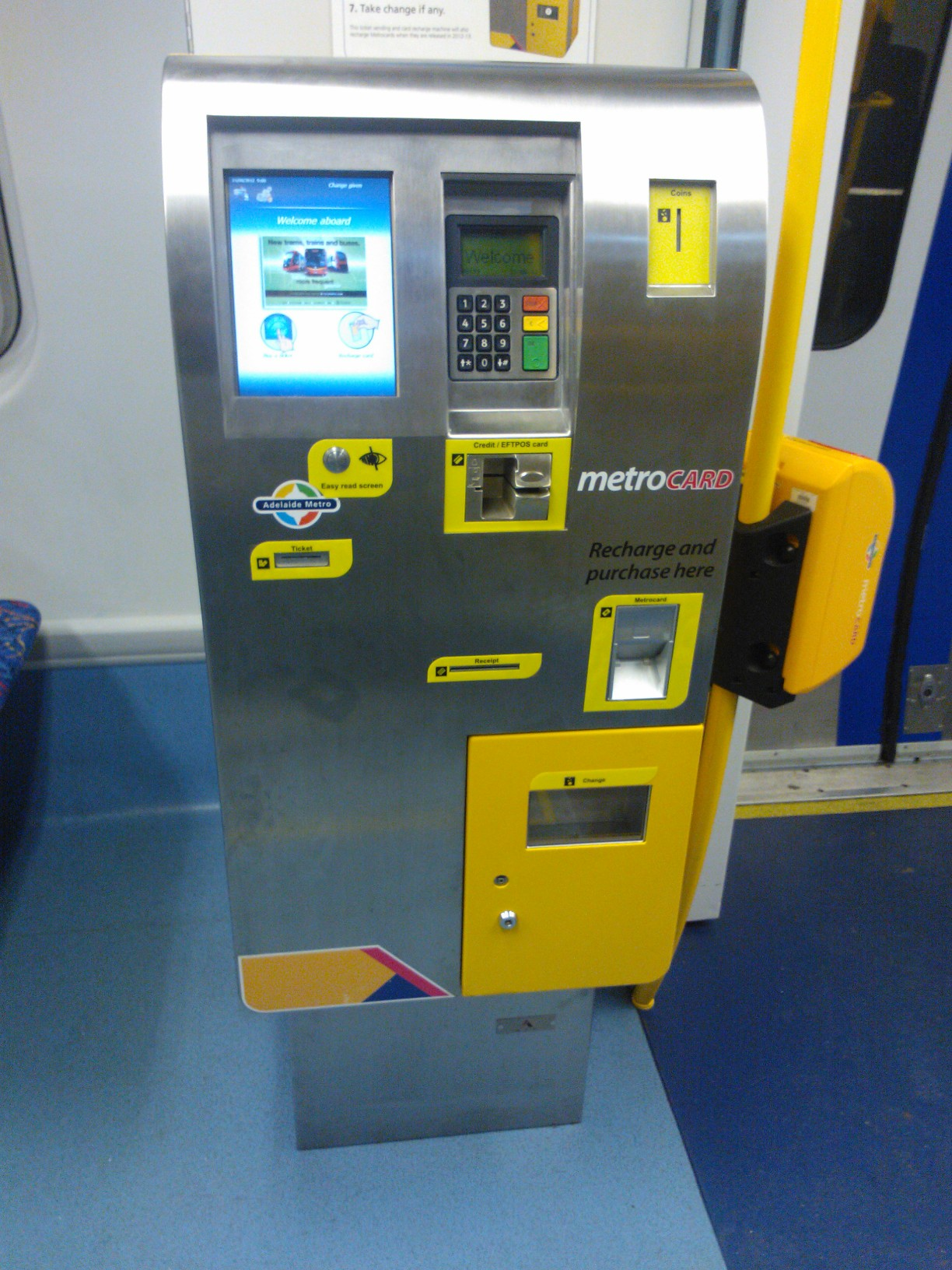 An Adelaide Metro Metrocard Vending Machine located on a 3000 class railcar.